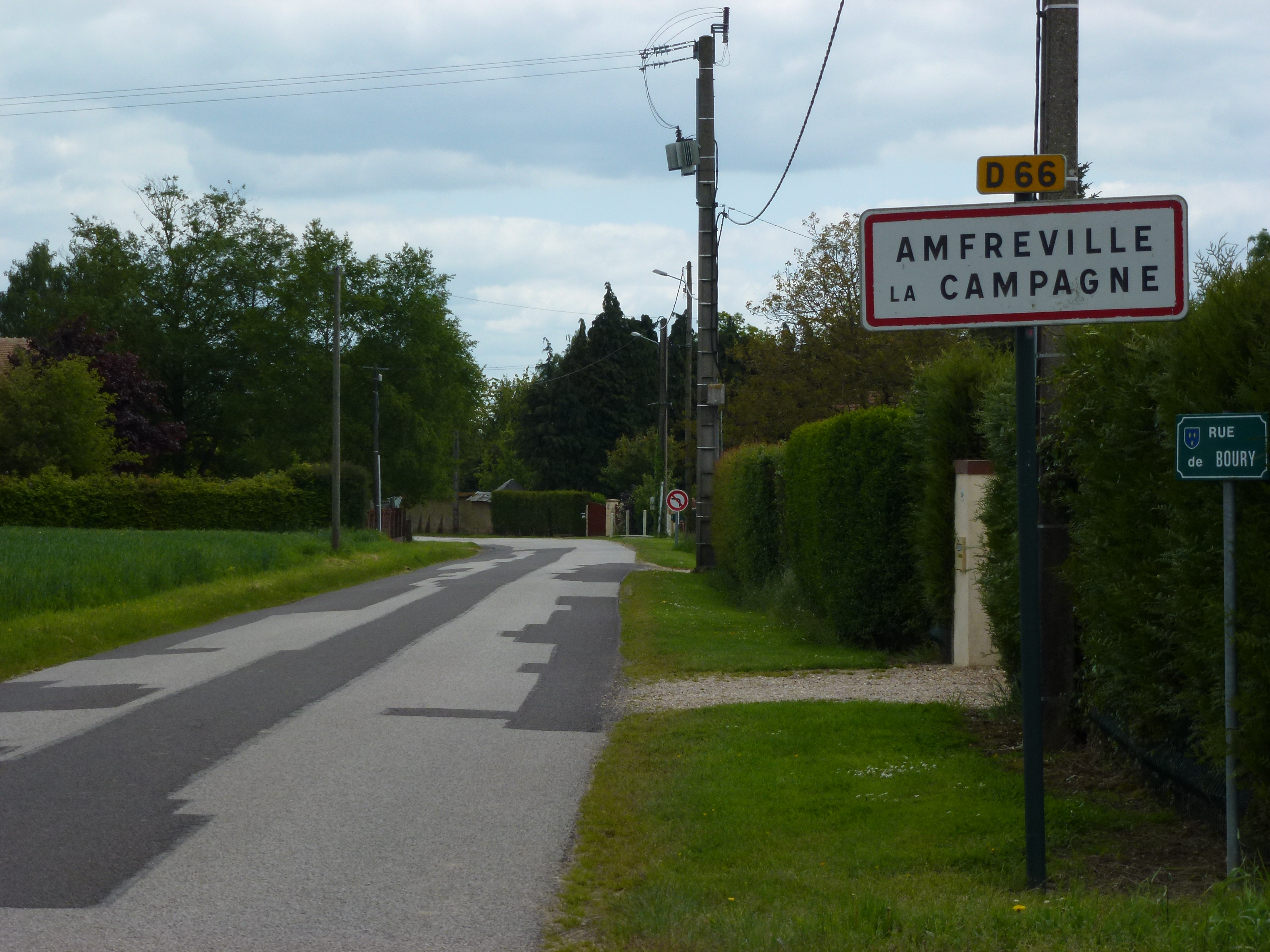 Amfreville-la-Campagne (Eure, Fr) city limit sign